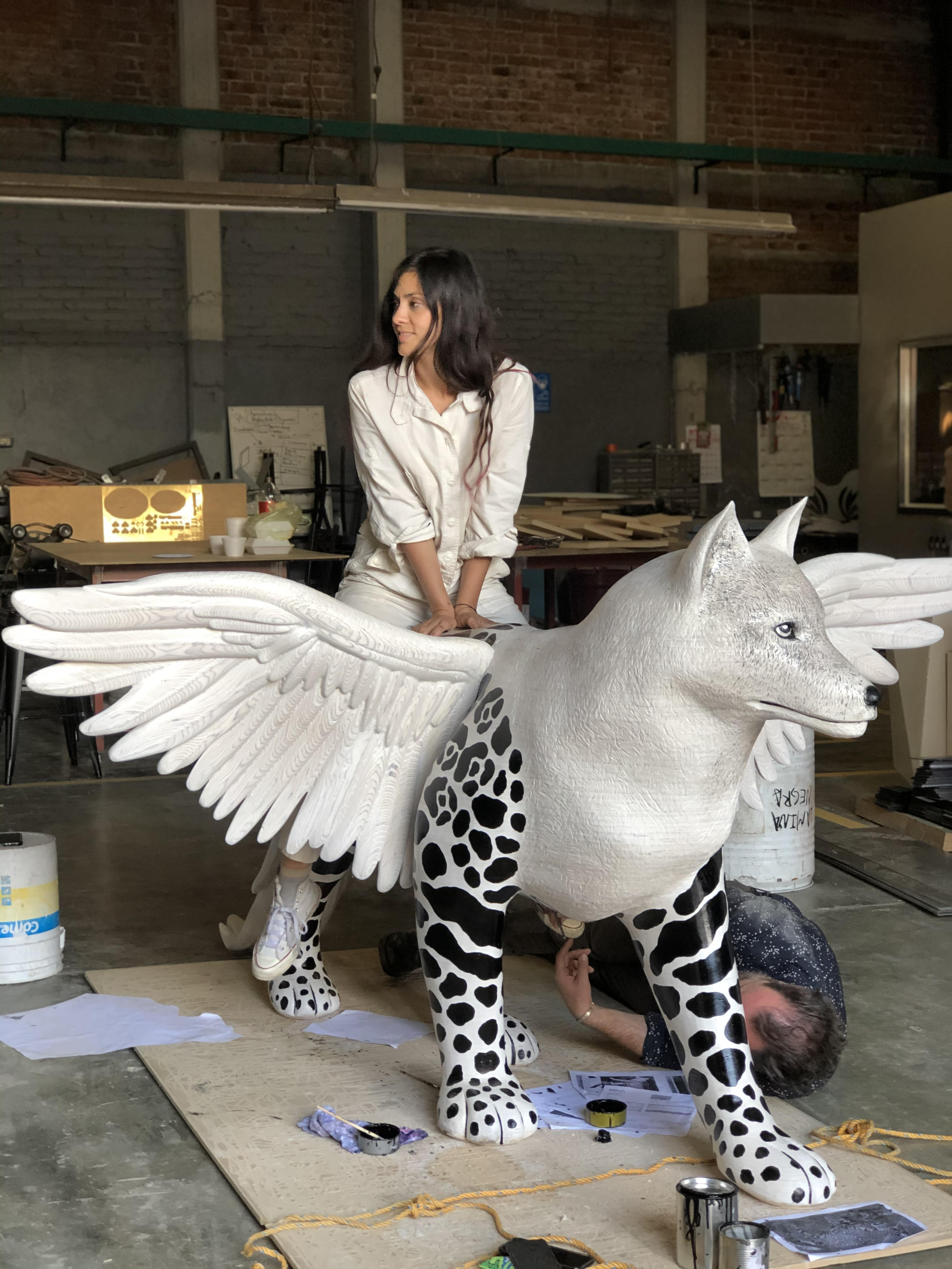 Diana Garcia en proceso de creación